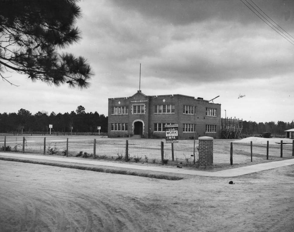 Sidewalks, fencing and terracing of grounds by the WPA at Doyle High School in Doyle Louisiana in 1937.